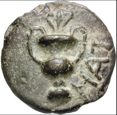 A coin that shows Kantharos, a type of ancient Greek cup used for drinking. A coin in a quadruncia (aes grave), circa 280 a.C.; 193,74 g.